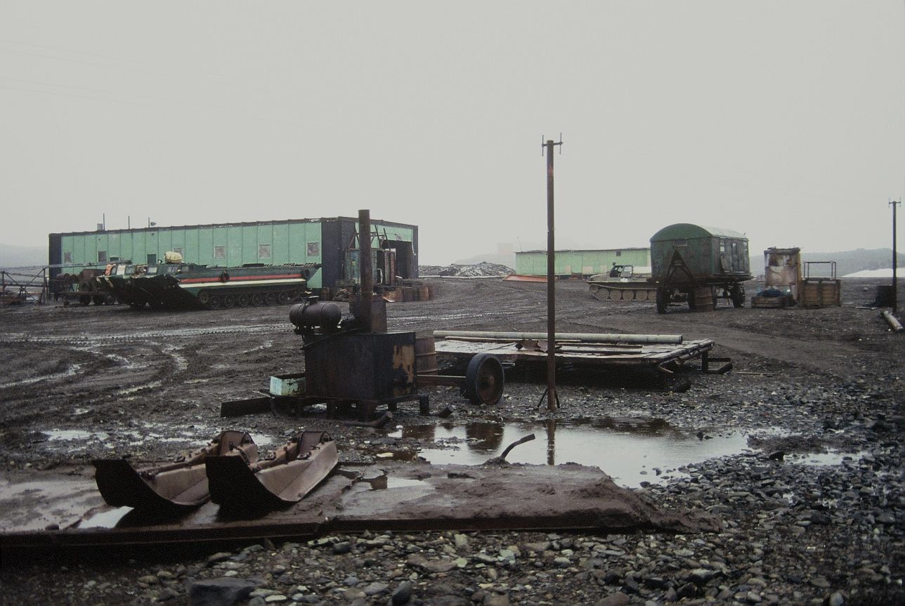 A scene at Bellingshausen, a Russian Antarctic base on King George Island. Note the military tracked vehicles, apparently adapted for civilian or scientific use.